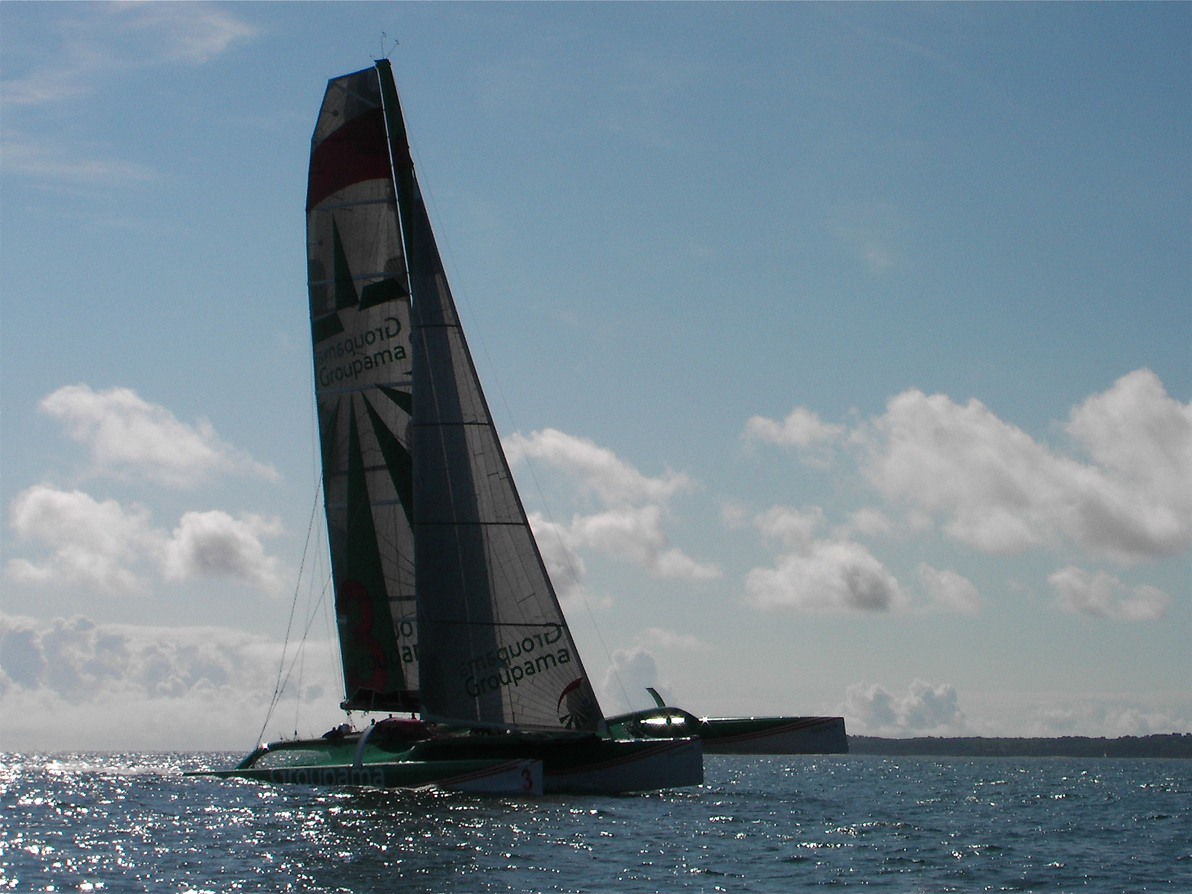 Groupama 3 under sails, South Britanny, front side view